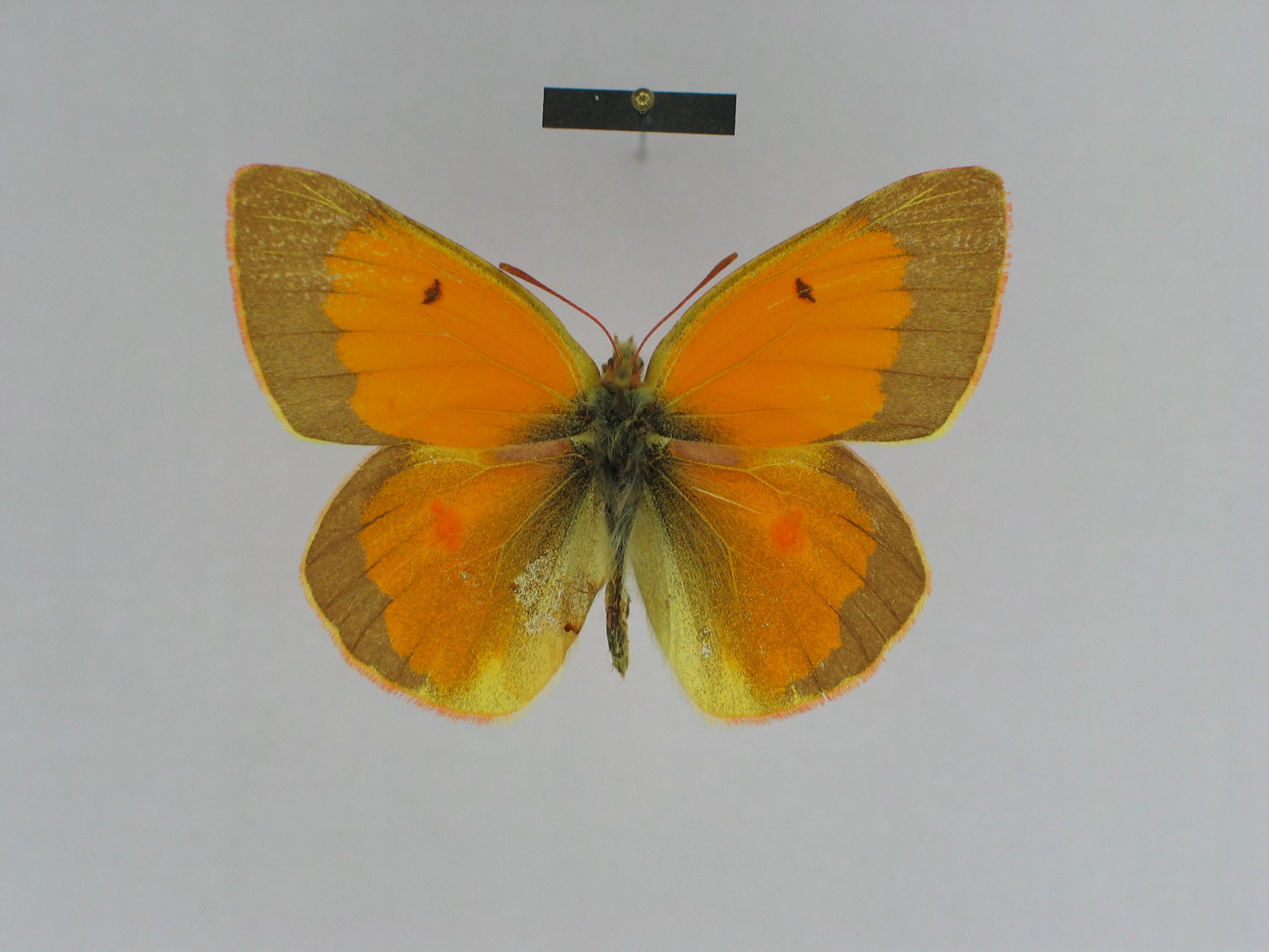 Paralectotype of the species Colias hyperborea hyperborea from the collection of the Zoological Museum of the Zoological Institute of the Russian Academy of Sciences (Berlin); ♂ dorsal side; scalebar=1 cm